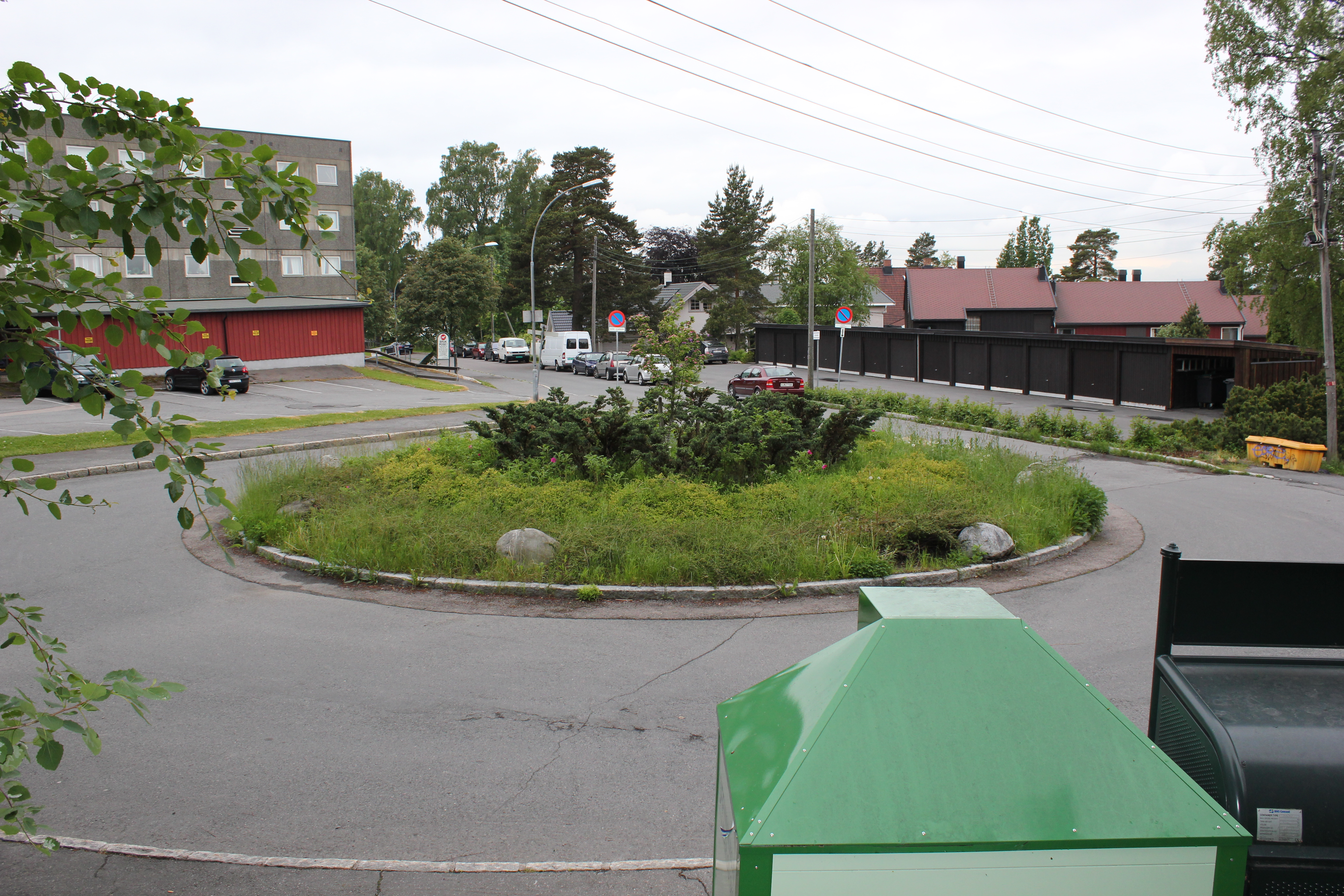 Inger Hagerups plass, Haugerud, Oslo, Norway, named after the poet Inger Hagerup who lived near by. The small plaza is right next to Haugerud subway station. Unknown